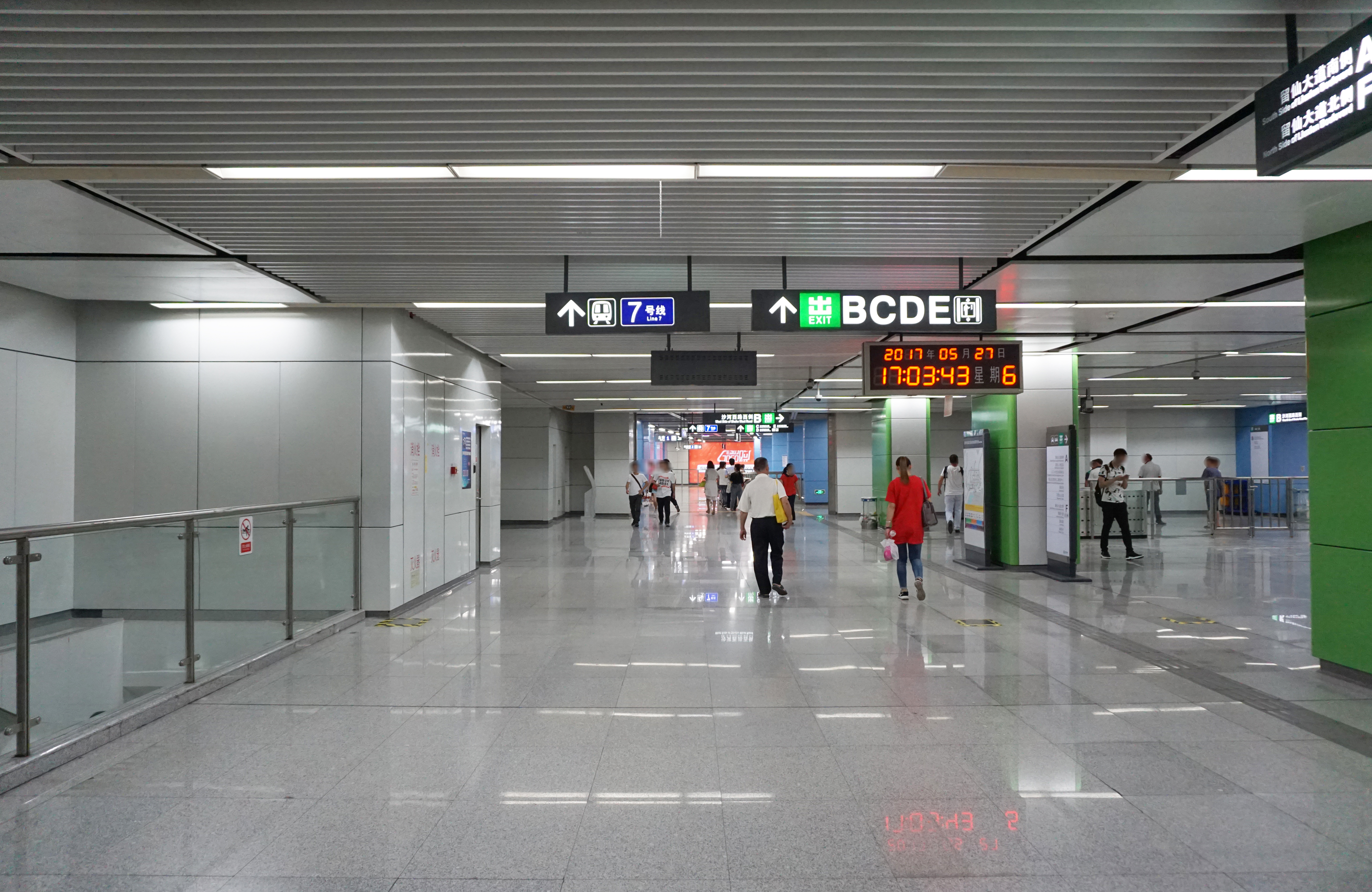 Xili Station in Nanshan District, Shenzhen.